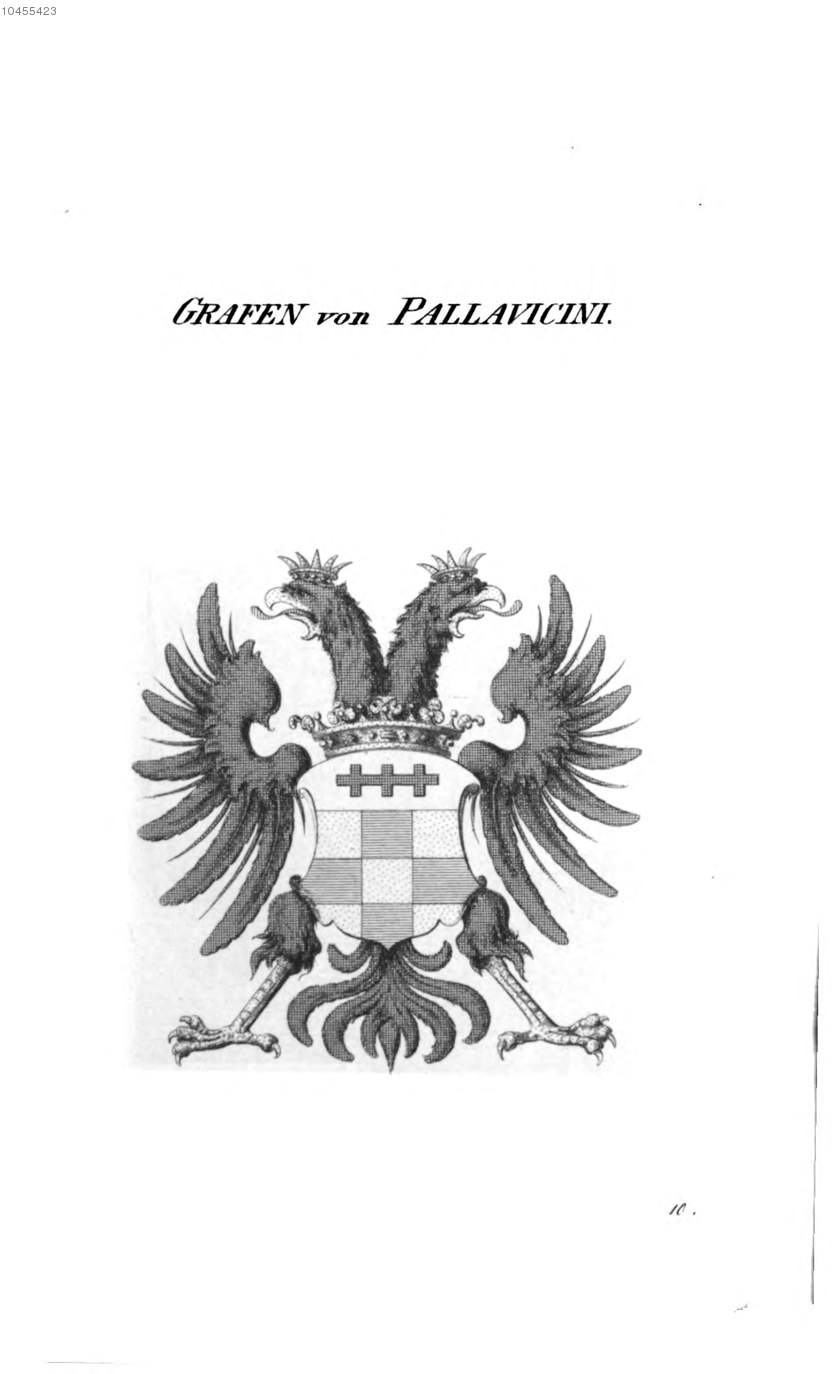 Wappen Pallavicini 3 - Tyroff AT.jpg